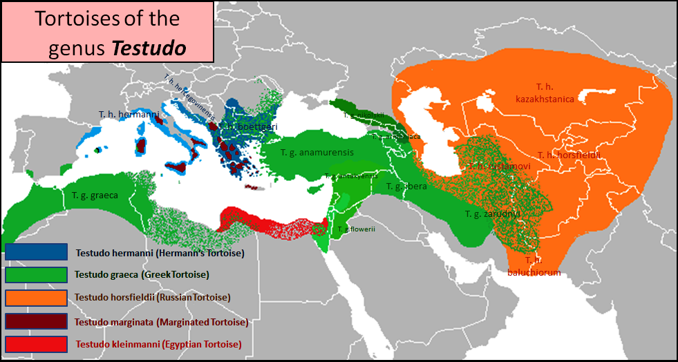 Distribution map of the tortoise species of the Testudo genus. Overlaps and subspecies are shown.